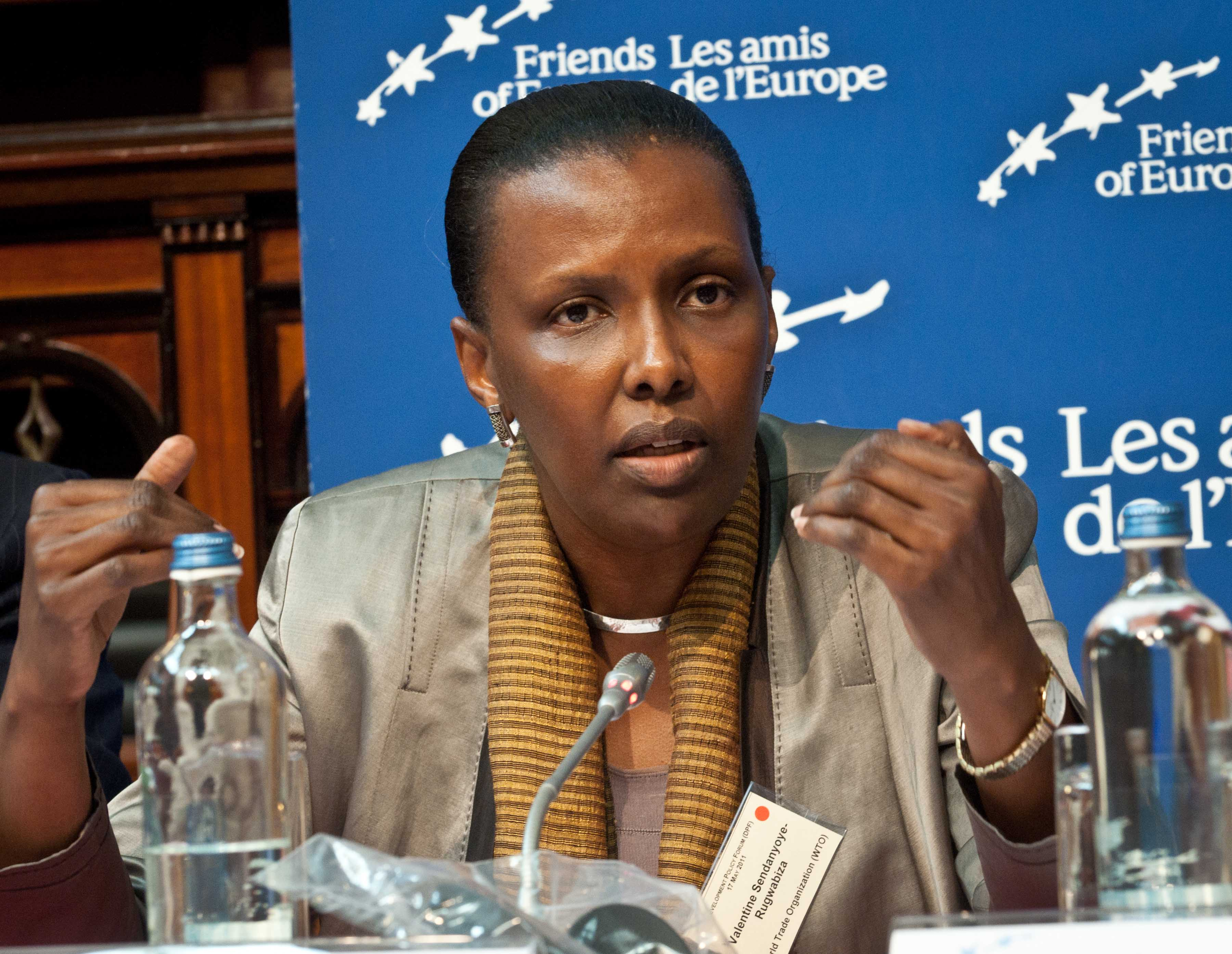 Valentine Rugwabiza from Rwanda here Deputy Director General of the World Trade Organisation in 2018 the UN Ambassador